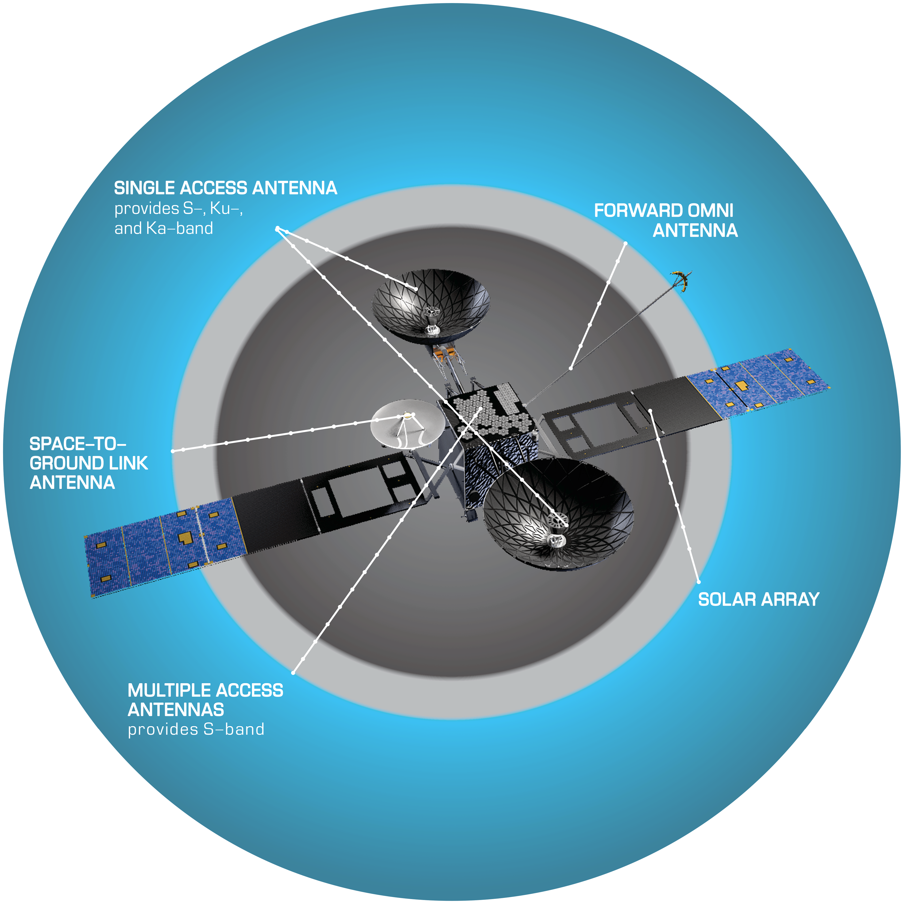 TDRS-L Illustration